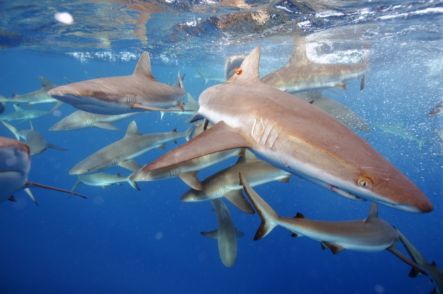 Grey reef sharks, Pacific Remote Islands Marine National Monument. Photo credit: Kydd Pollock